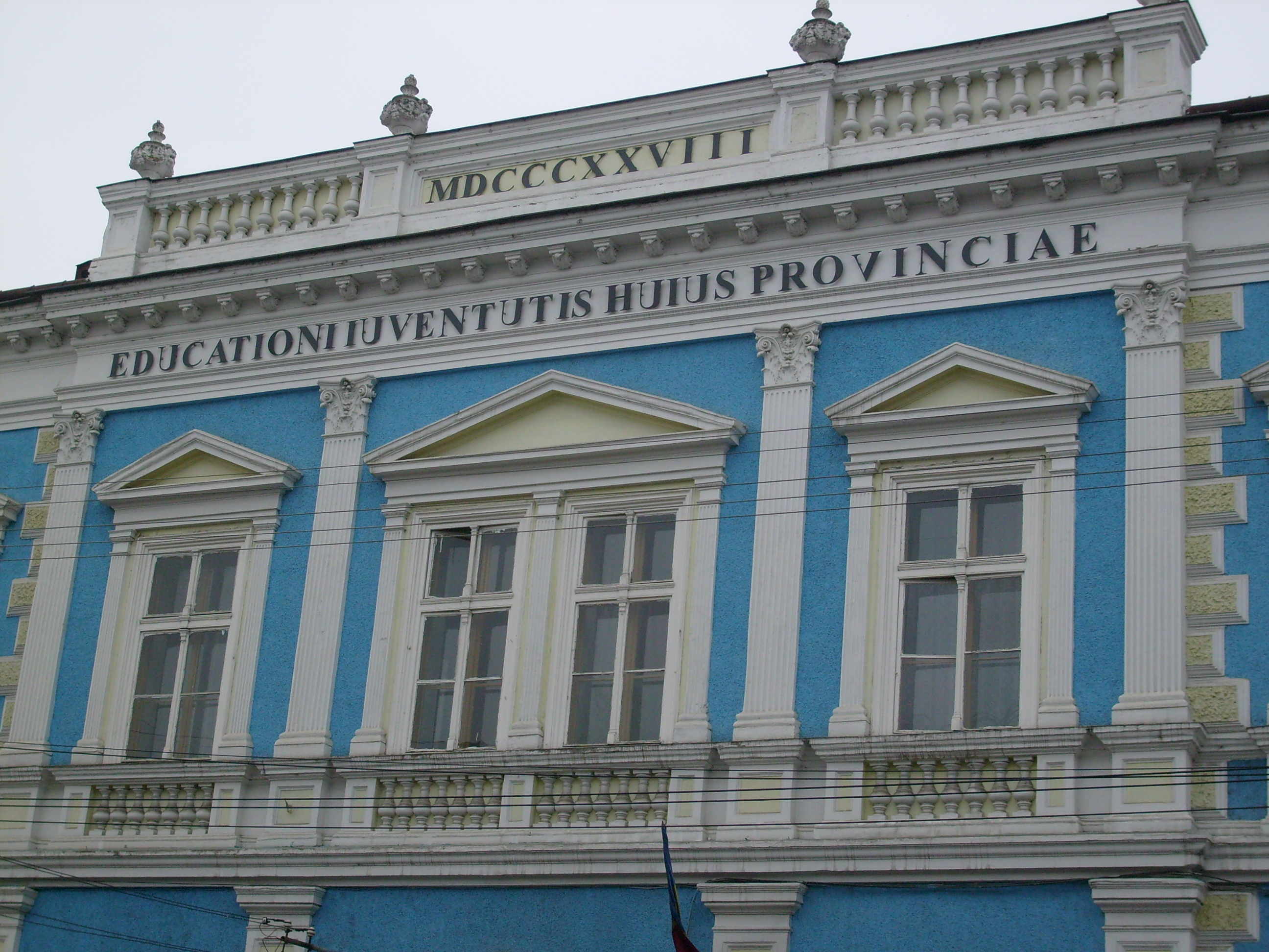 Beius, Colegiul Samuil Vulcan. Detail.